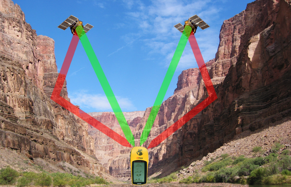 Multipath efect in GPS signal. Green color indicates the direct path of the waves, the red color indicates reflected waves.